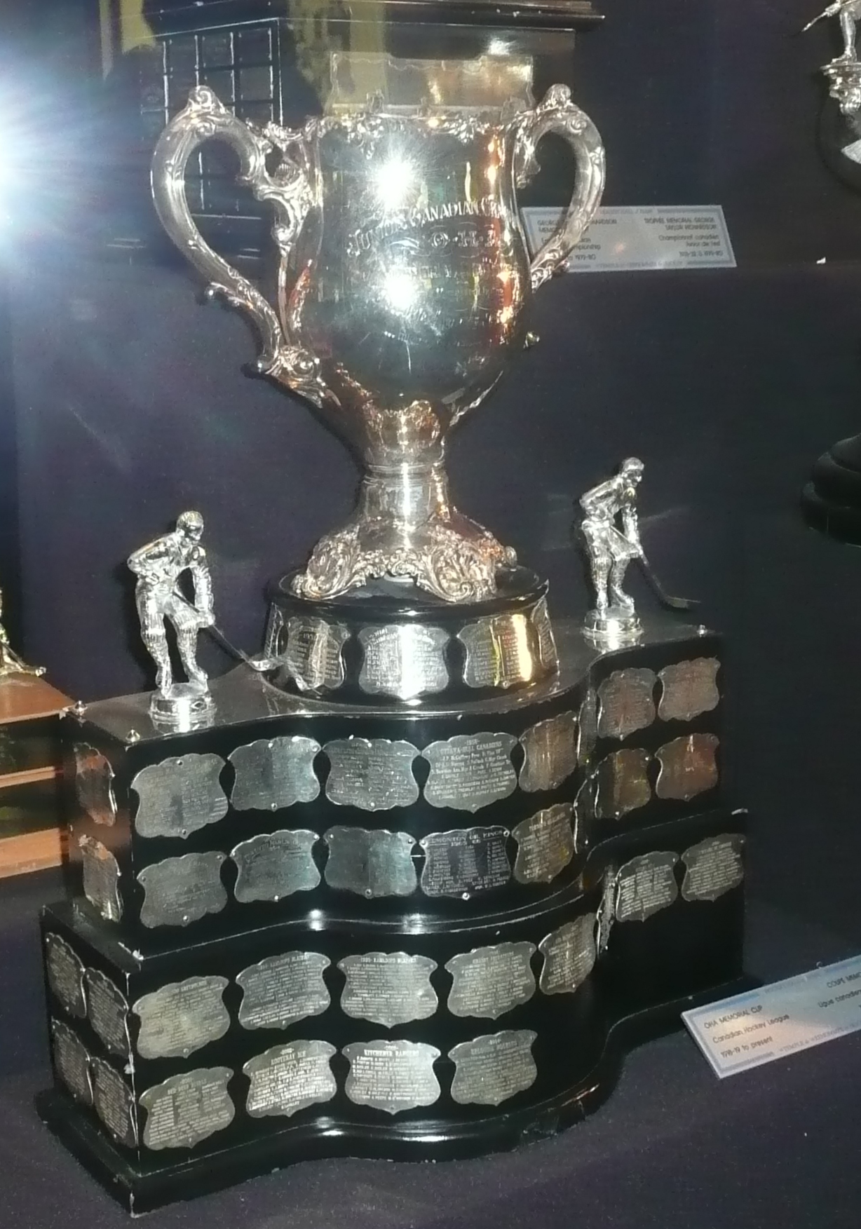 The Memorial Cup, on display at the Hockey Hall of Fame.